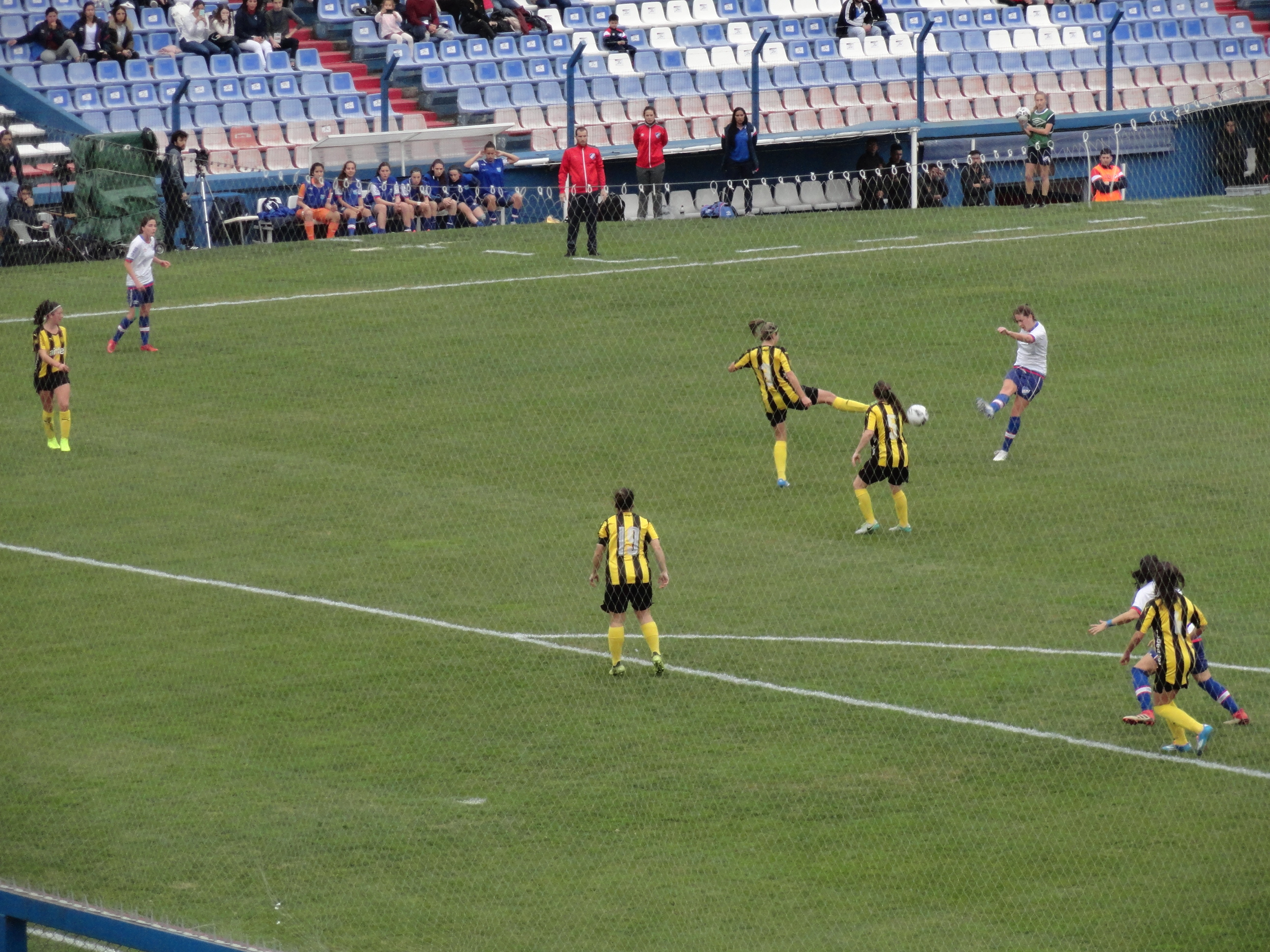 Derby match between Nacional and Peñarol for the Torneo Apertura of the Uruguayan First Division Women's Football Championship, held for the first time at the Gran Parque Central. Peñarol won 2-1 and claimed the title.